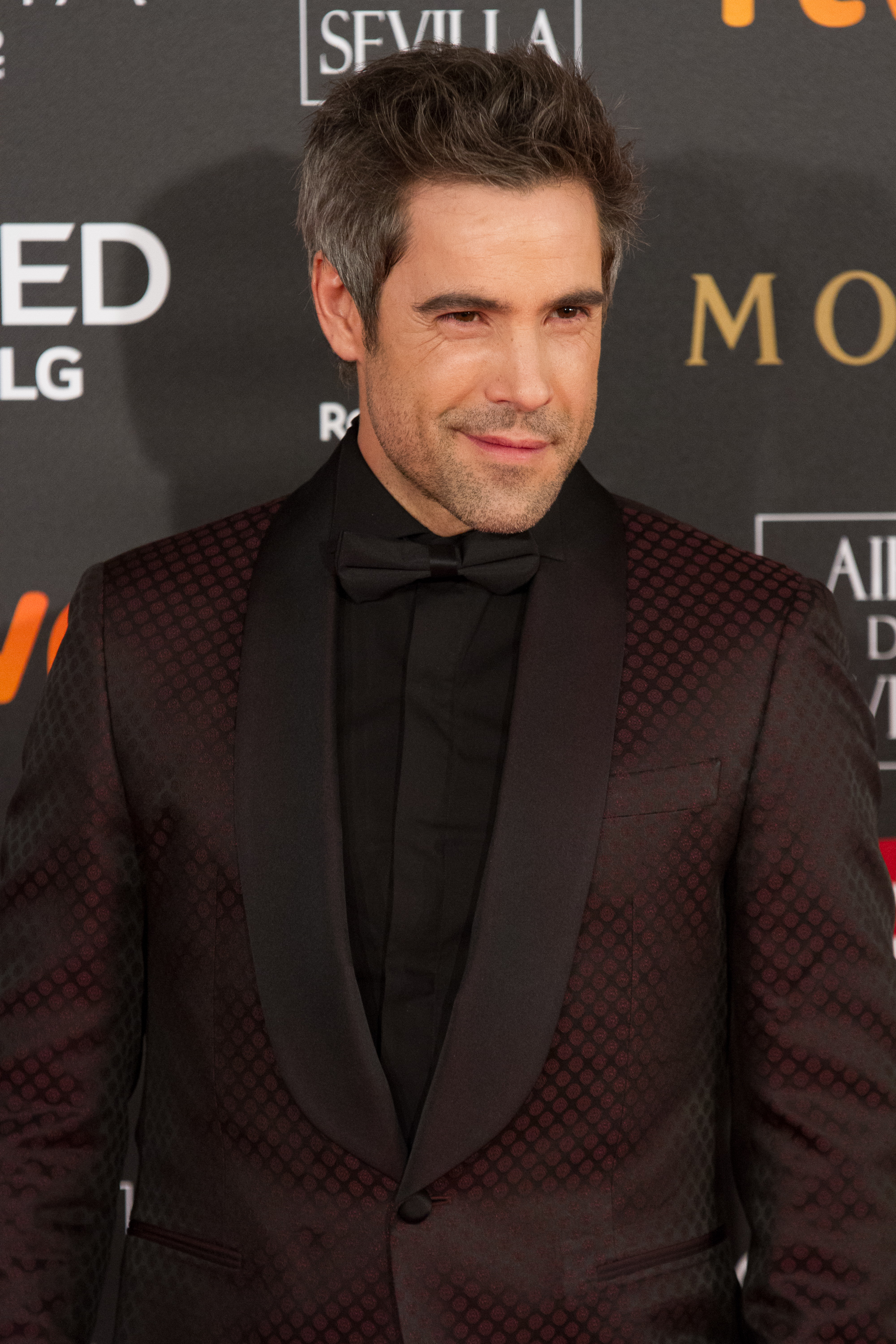 32nd Goya Awards, 2018.